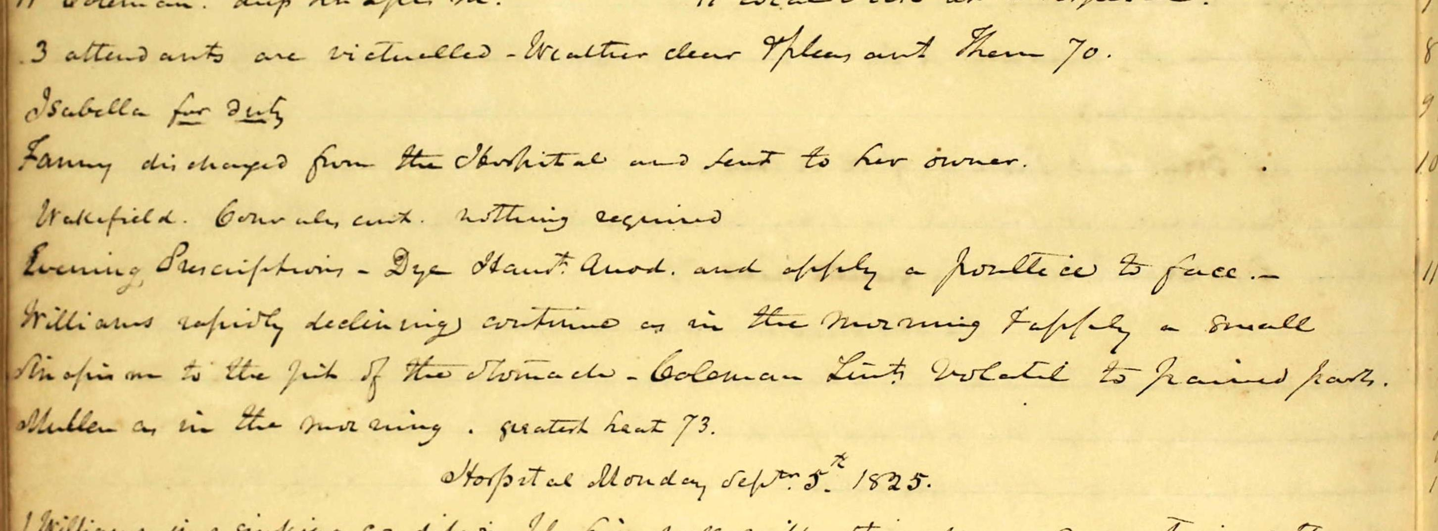 This 4 September 1825 case file Gosport Navy Yard re employment of enslaved woman Fanny Ballott. Ballott worked at the hospital as a washer(laundress) she was pregnant and after delivering her child was returned to the slaveholder.